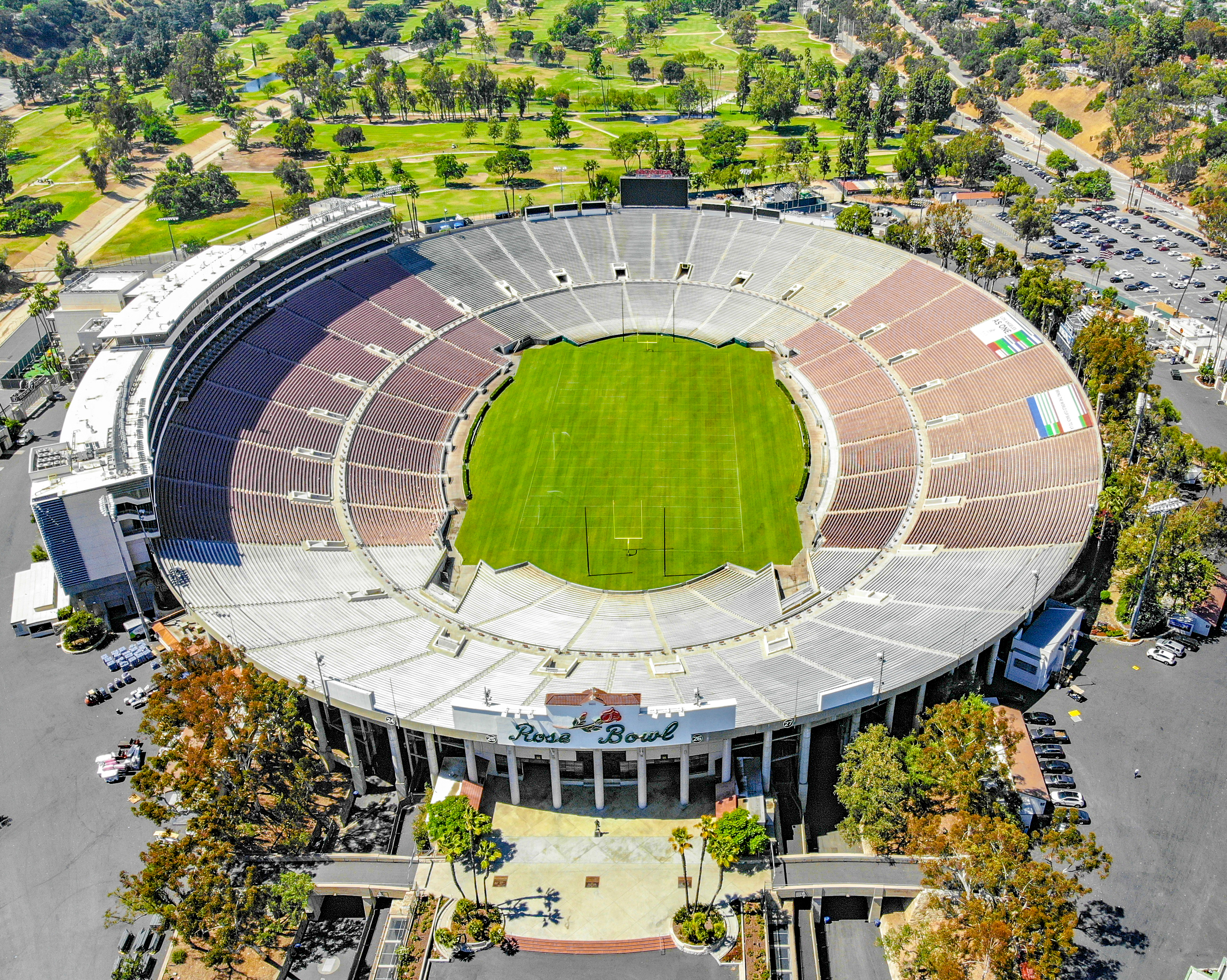 Rose Bowl, Lot H, in Pasadena, California, is one of the few places in the United States where you can fly a drone legally.